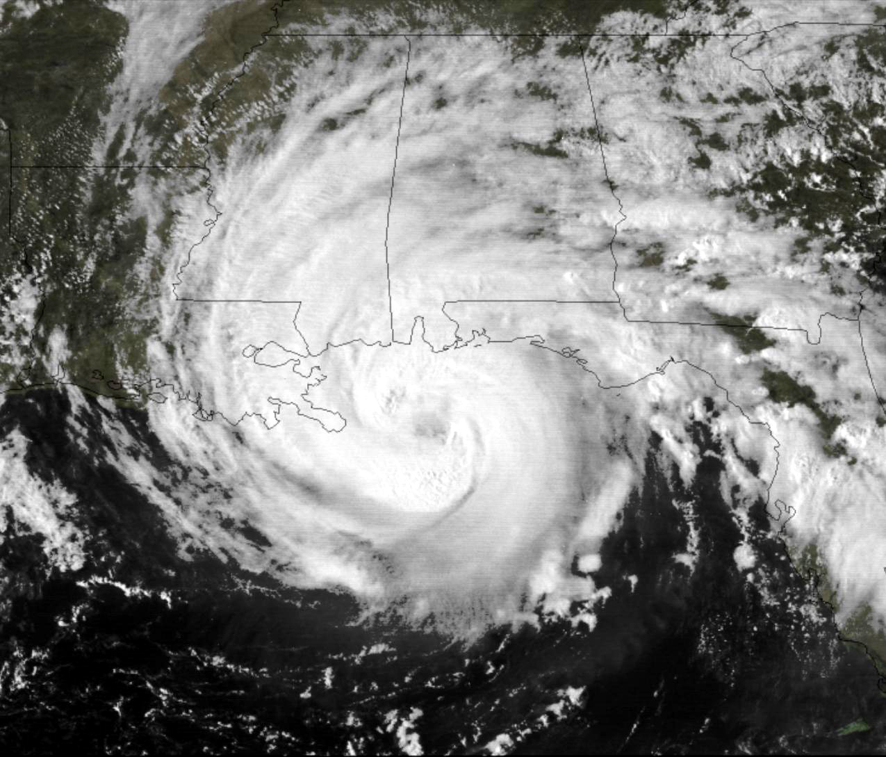 Hurricane Frederic prior to landfall.